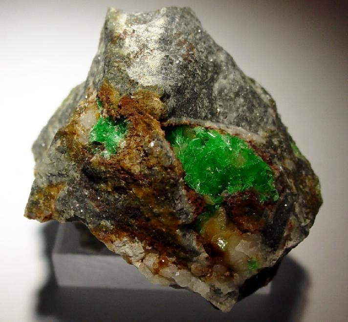 Annabergite Locality: Km-3 Mine, Lavrion Mines, Lavrion (Laurion; Laurium), Lavrion District Mines, Lavrion (Laurion; Laurium) District, Attikí (Attica; Attika) Prefecture, Greece (Locality at ) Annabergite is the nickel analogue of Erythrite, and it is every bit as stunning in its own way. Typical for this locality, these crystals have a superb luster and an unparalleled bright mint-green color. However, they are unusually well-formed and extended on teh c-axis; and under a loupe are somewhat better than the "usual material" you see from here. Very few minerals have the eye-catching appeal of Annabergite, and these beautiful crystals are no exception. 3.2 x 2.4 x 2.2 cm